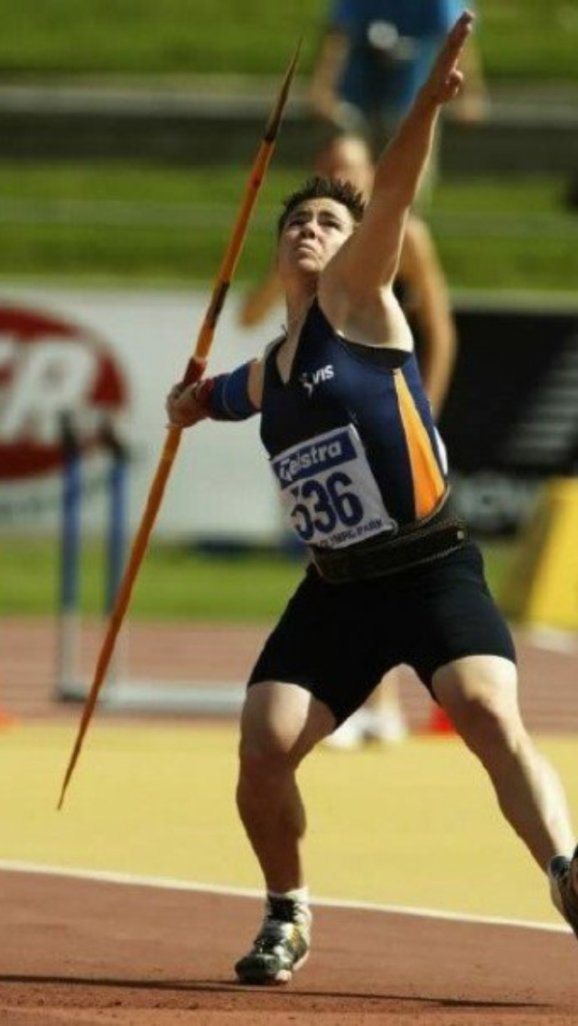 Cecilia during the 02/03 National Championships.